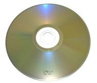 Photo of an Verbatim DVD-R disc.